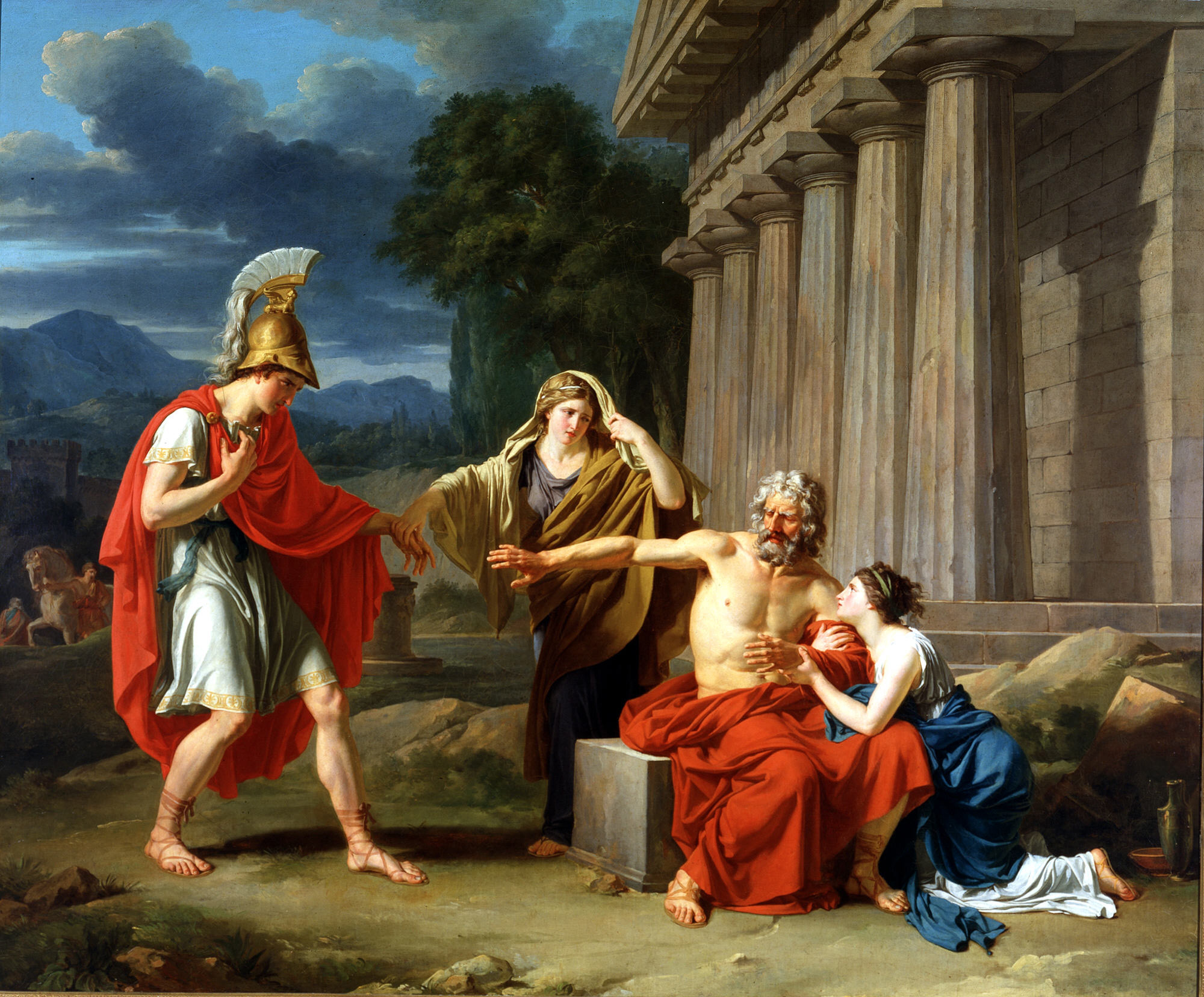 painting at the Dallas Museum of Art